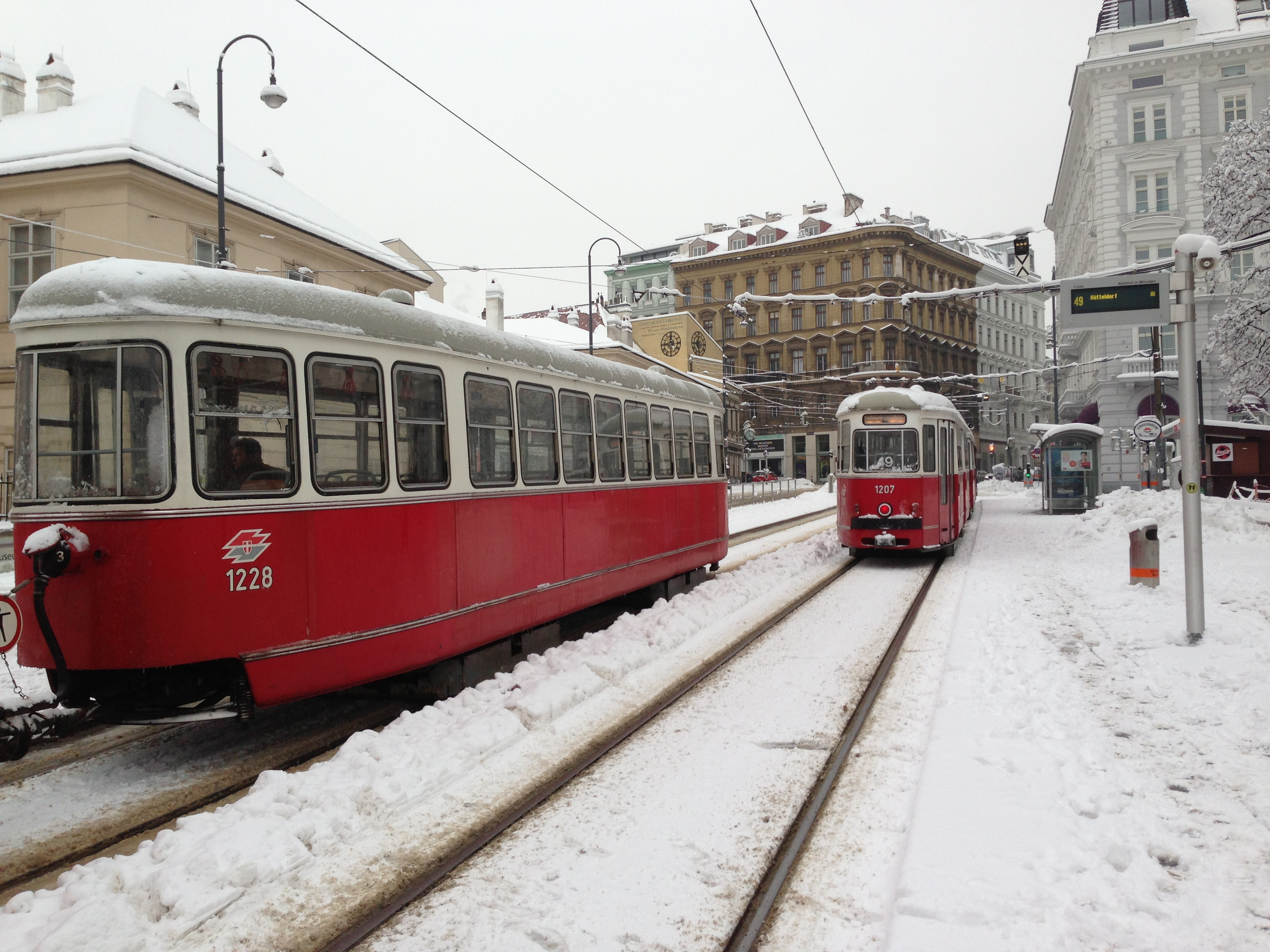 Trams at Volkstheater Stop Vienna winter